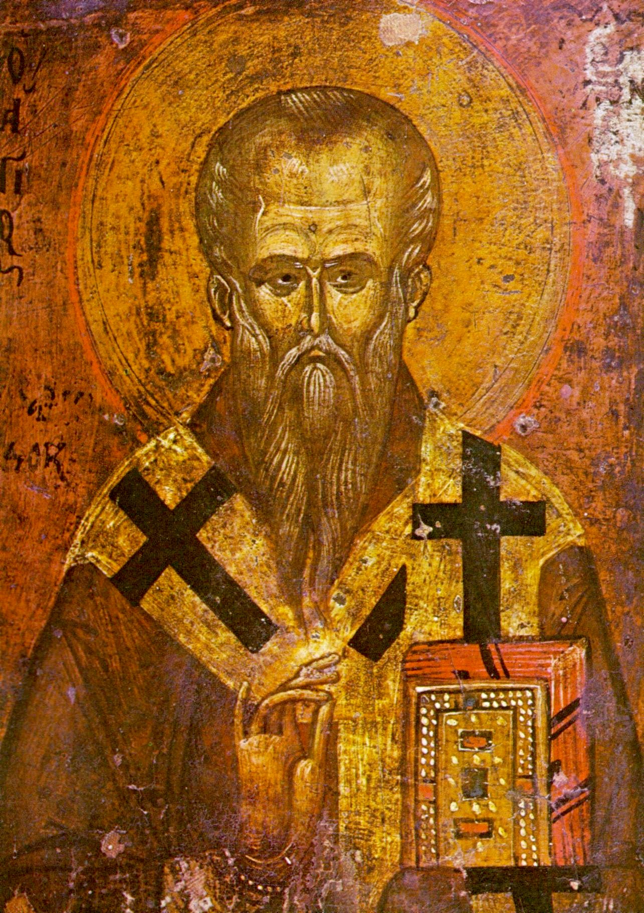 Saint Clement of Ohrid, icon, 13th-14th century.